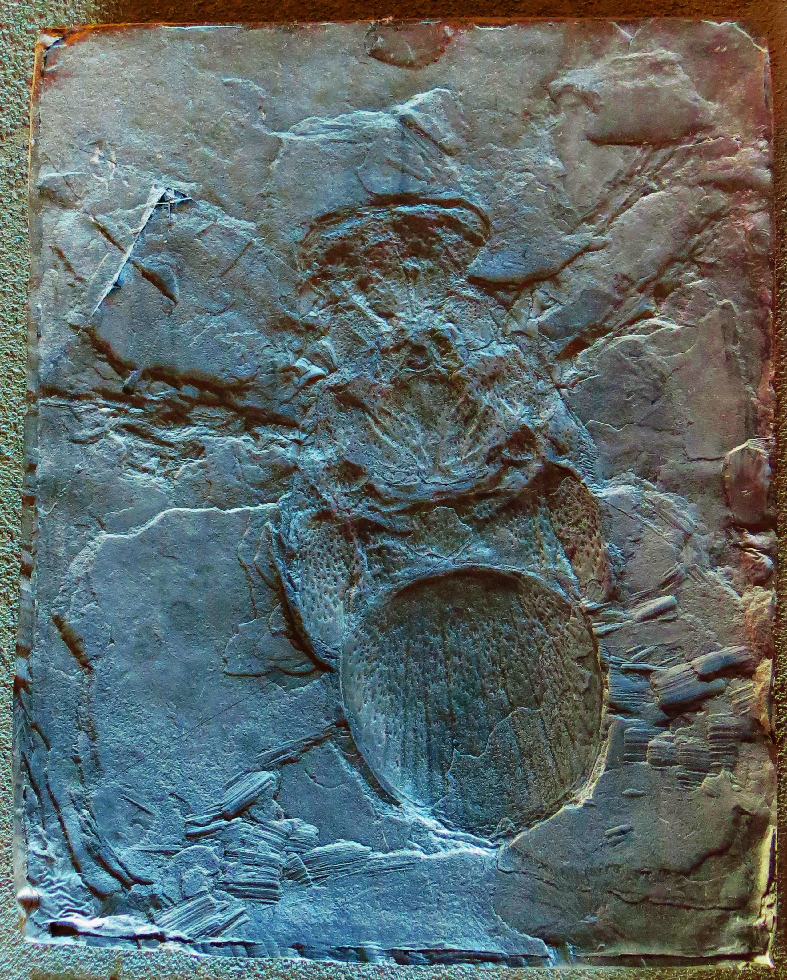 Cast of the Megarachne servinei holotype, exhibited at the Naturalis Biodiversity Center in Leiden (Netherlands). The holotype itself is kept at the Museum of Paleontology of the University of Córdoba, in Córdoba (Argentina).